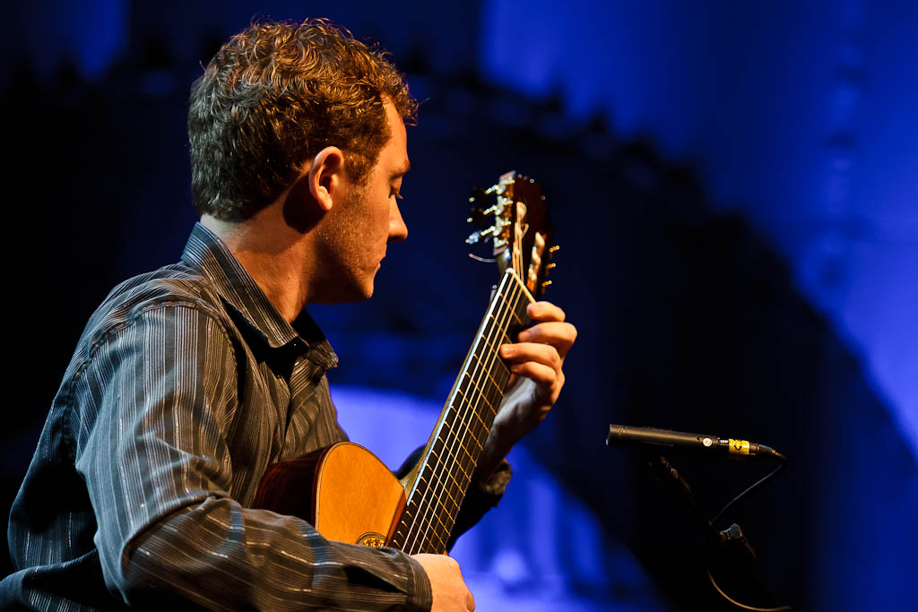 Fabricio Mattos, guitarist